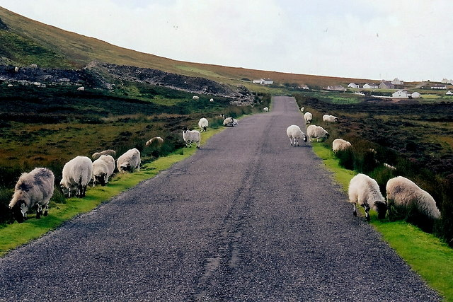 Gweedore area - Sheep grazing along R257 Seen between Brinlack & Meenaclady.